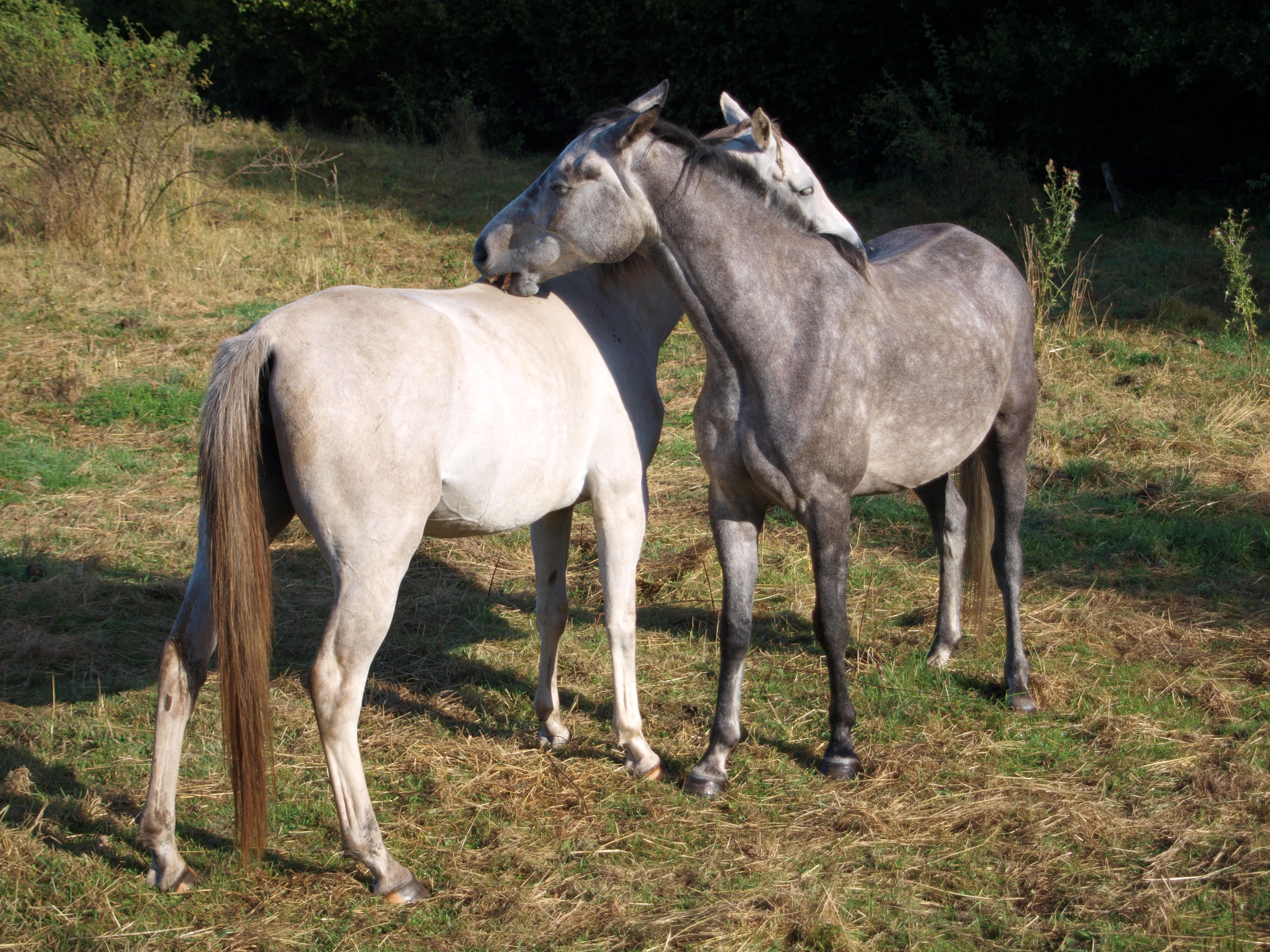 Social behavior of horses, mutual nibbling.